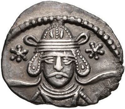 Coin of Vonones II, minted at Hamadan.